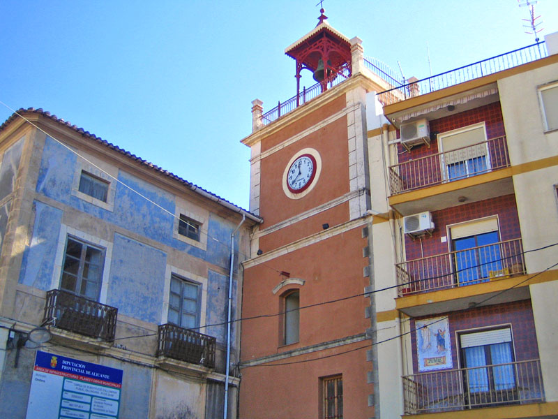 Photo of the clock-tower at Ondara, county Marina Alta, Region of Valencia, Spain.